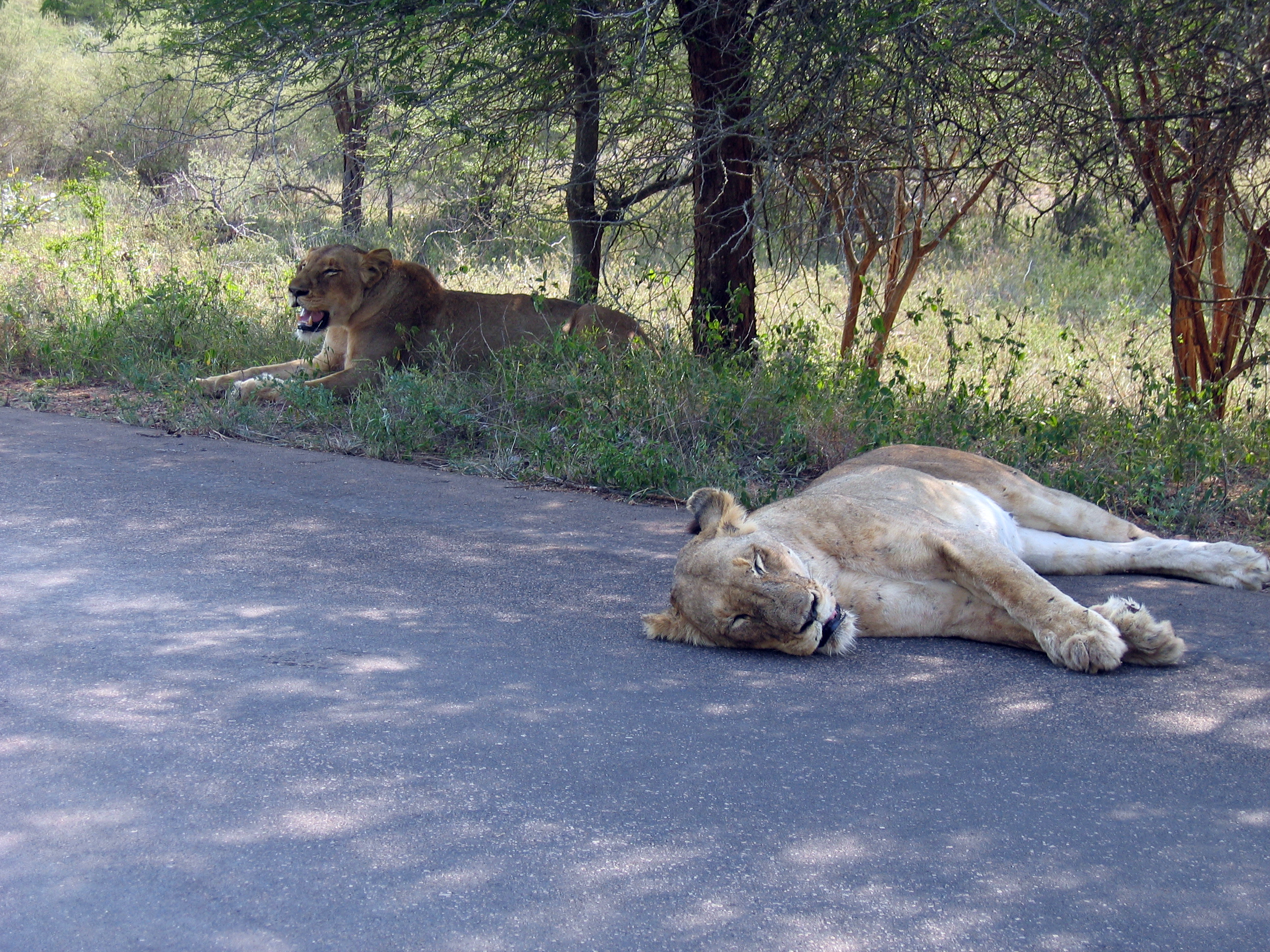 Two lions having a break after an unsuccessful hunt in Kruger National Park